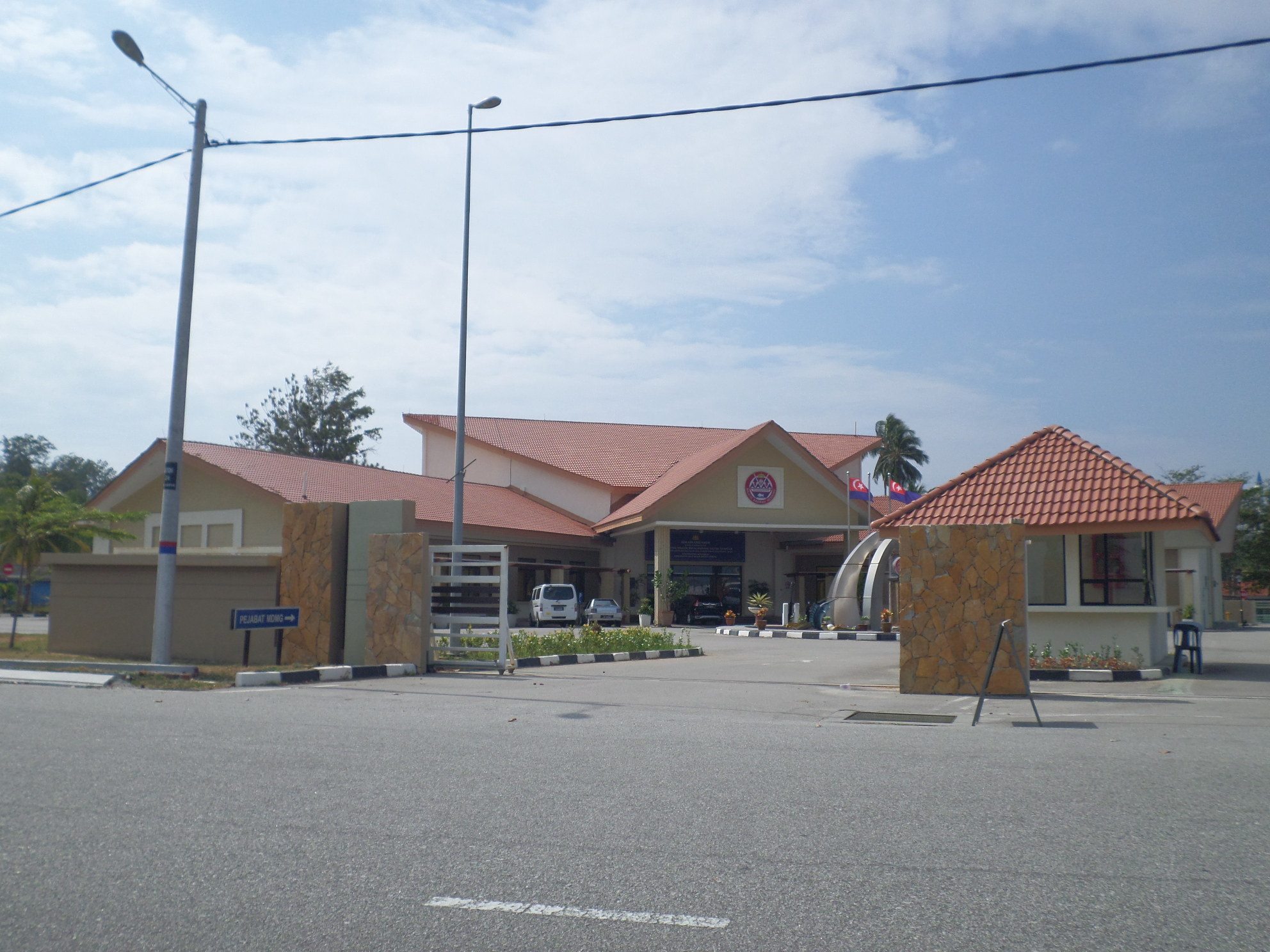 Mersing District Council, Mersing, Johor, Malaysia